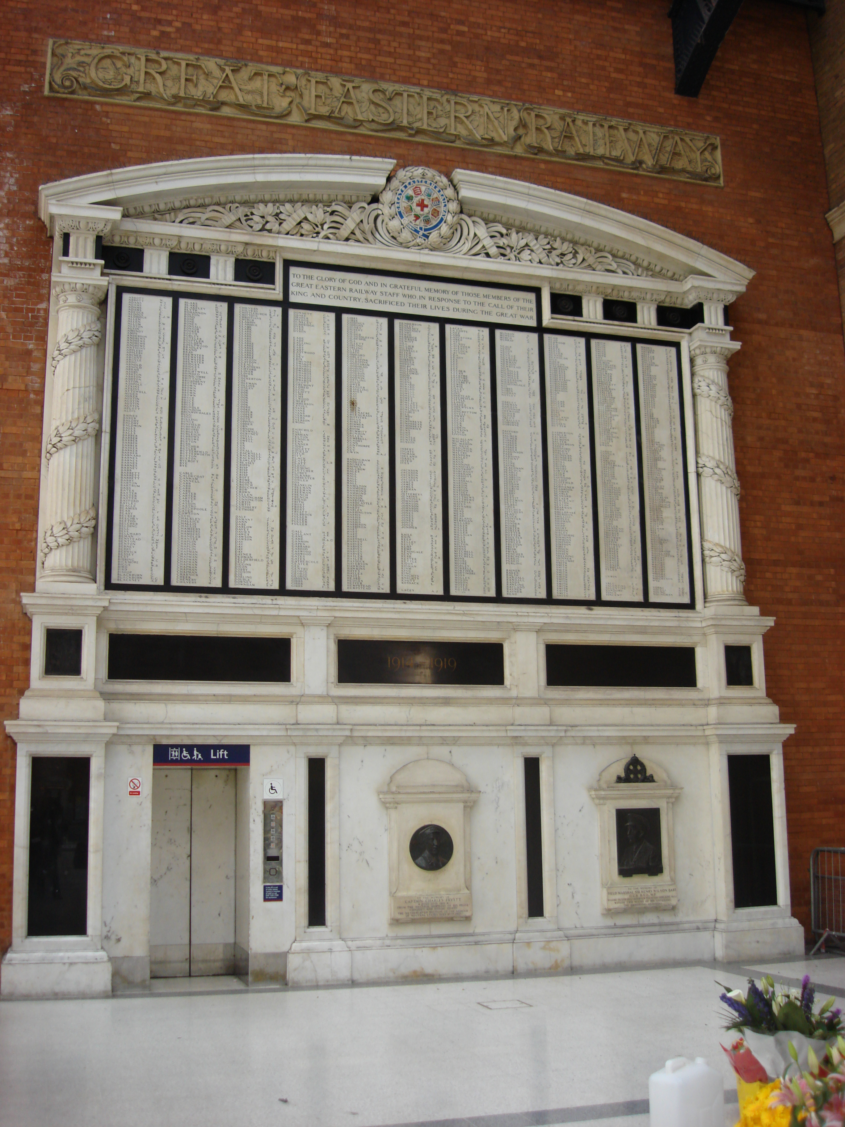 Memorial to the staff of the Great Eastern Railway who sacrificed their lives in the Great war